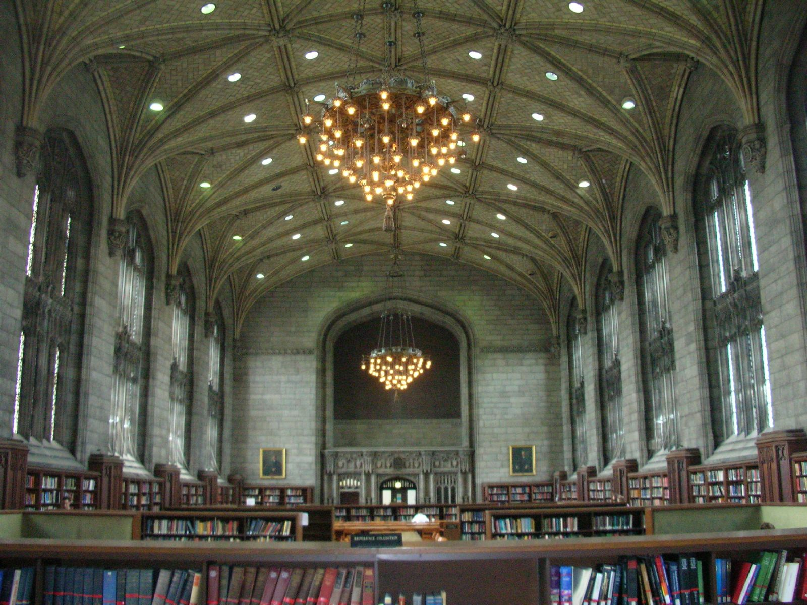 Harper Library, interior, University of Chicago